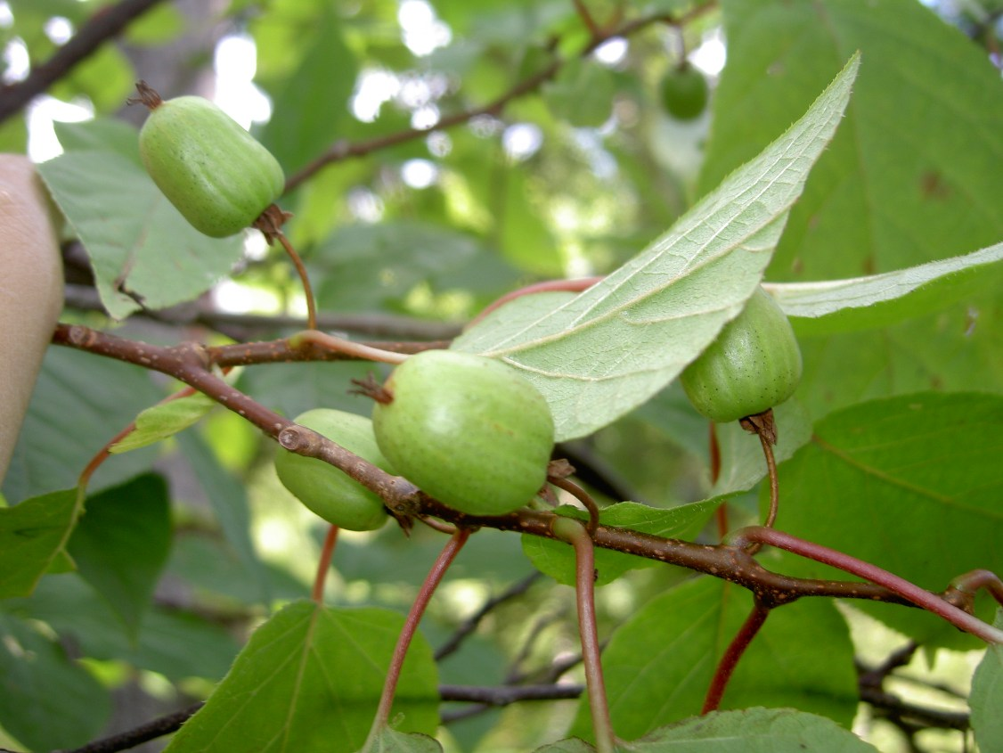 Actinidia kolomikta, fruits. Sakhalin Island